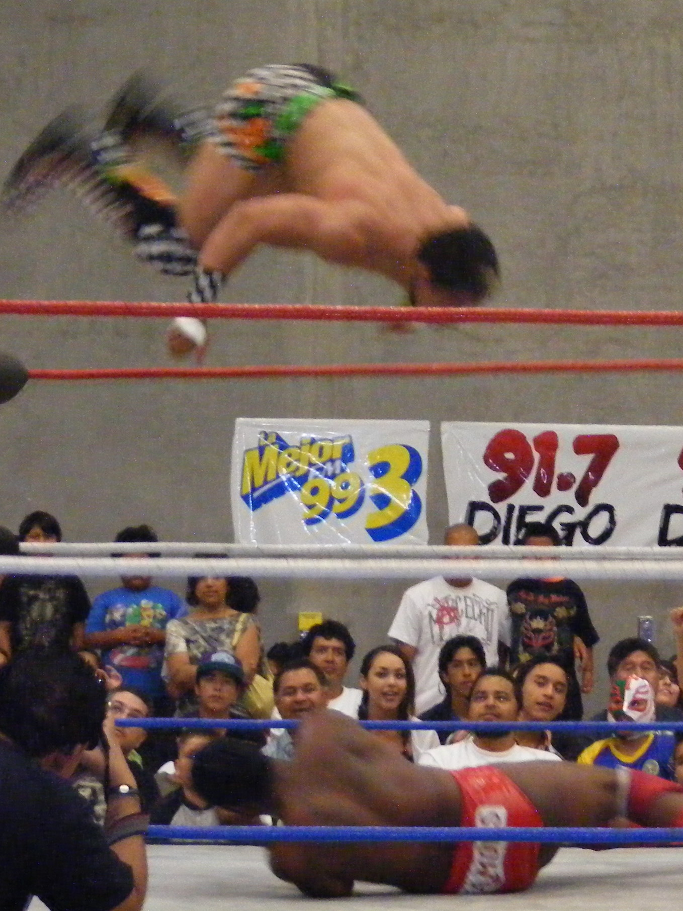 TJ Perkins performing a senton bomb on Famous B at a Viva La Lucha show in San Diego in July 2011.